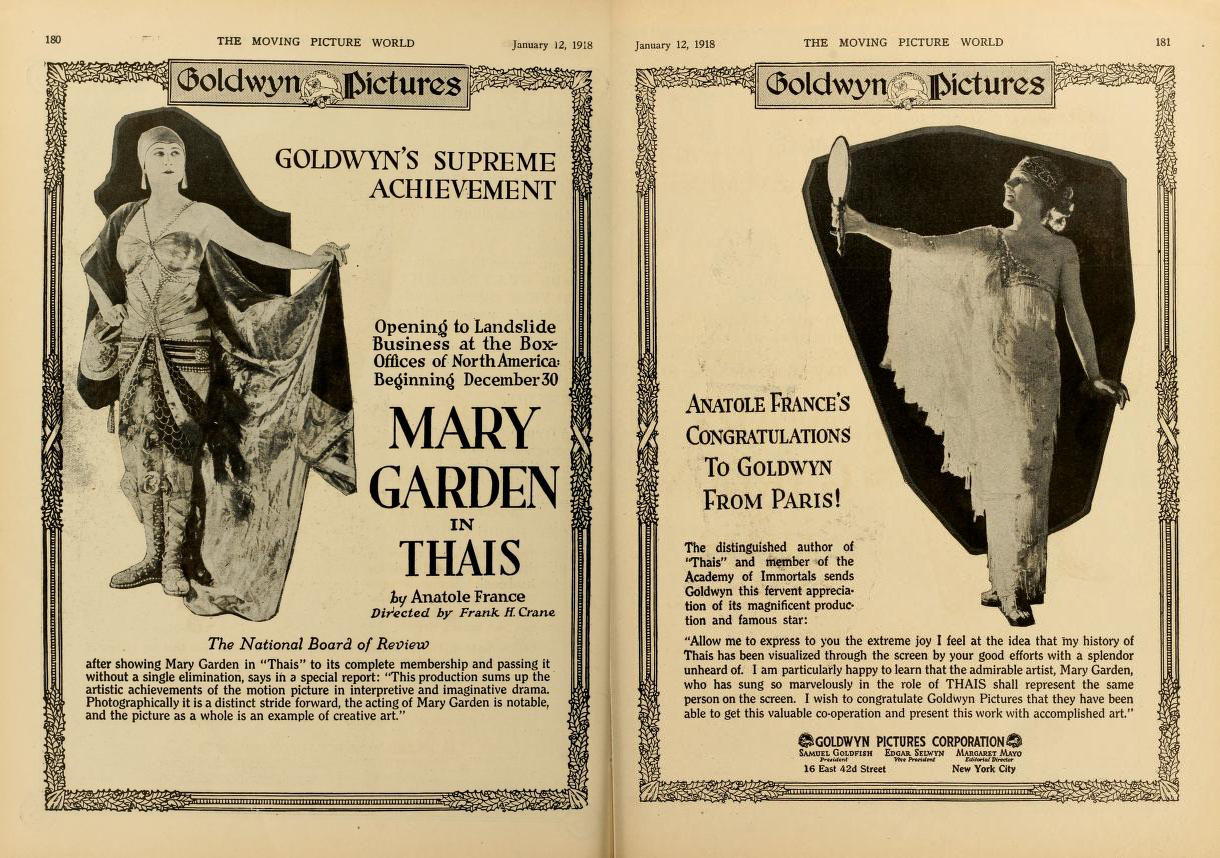 Advertisement in Moving Picture World, Jan 1918 for the American film Thais (1917) with Mary Garden.